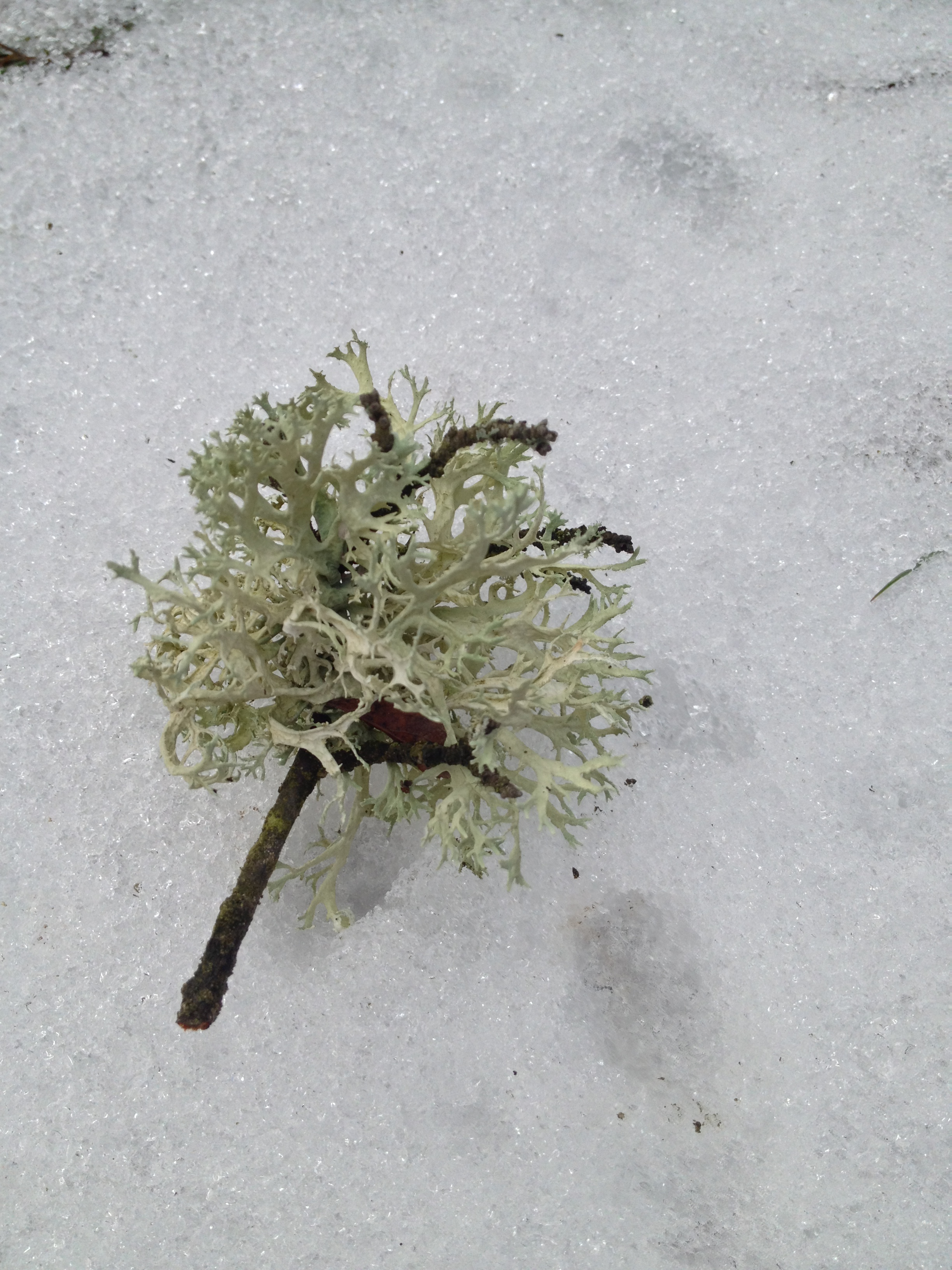 Evernia prunastri in natural monument Skalka in Prague, Czech Republic